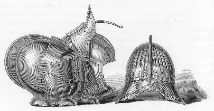 Book Illustration from the "Voyages and travels, or, Scenes in many lands : with eight hundred and fifty illustrations on wood and steel of views from all parts of the world, comprising mountains, lakes, rivers, palaces, cathedrals, castles, abbeys, and ruins, with original descriptions by the best authors". Edited by Leo de Colange. — Boston E. W. Walkers & Co, 1887. Artist Hippolyte de la Charlerie (1827-1869). Engraved by François Pannemaker (1822-1900).